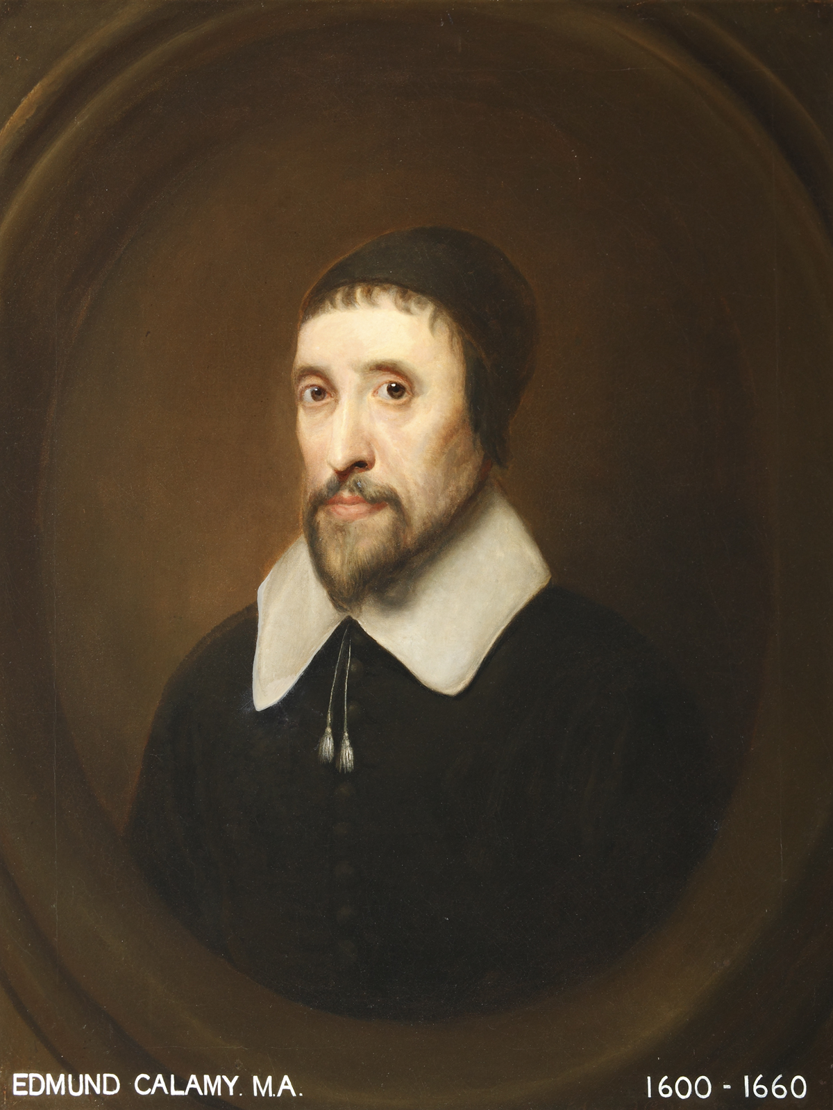 Depicted person: Edmund Calamy the Elder